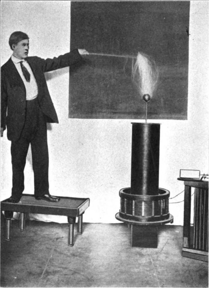 Time exposure photo of a student conducting a discharge through his body from a Tesla coil, of a type known at the time as an Oudin coil, at Los Angeles Polytechnic High School around 1909. The arcs are 16 inches (41 cm) long, corresponding to a voltage of around 200kV. The subject doesn't feel a shock and is apparently unharmed. It was believed until recently that this was due to skin effect: the high frequency current doesn't penetrate into the body but travels along the skin, so it cannot cause electrocution, only skin burns. The student uses a metal rod to avoid skin burns. However, it is now thought that Tesla coil discharges can travel through the interior of the body, causing damage, and the subject doesn't feel a shock because the nerve cells are not sensitive to these high frequency currents. Therefore THIS EXPERIMENT IS EXTREMELY DANGEROUS AND CAN RESULT IN ELECTROCUTION. DON'T TRY IT. Alterations to image: removed caption, which read: "Taking a 16 inch discharge into the body from the Oudin resonator. Exposed 10 seconds."